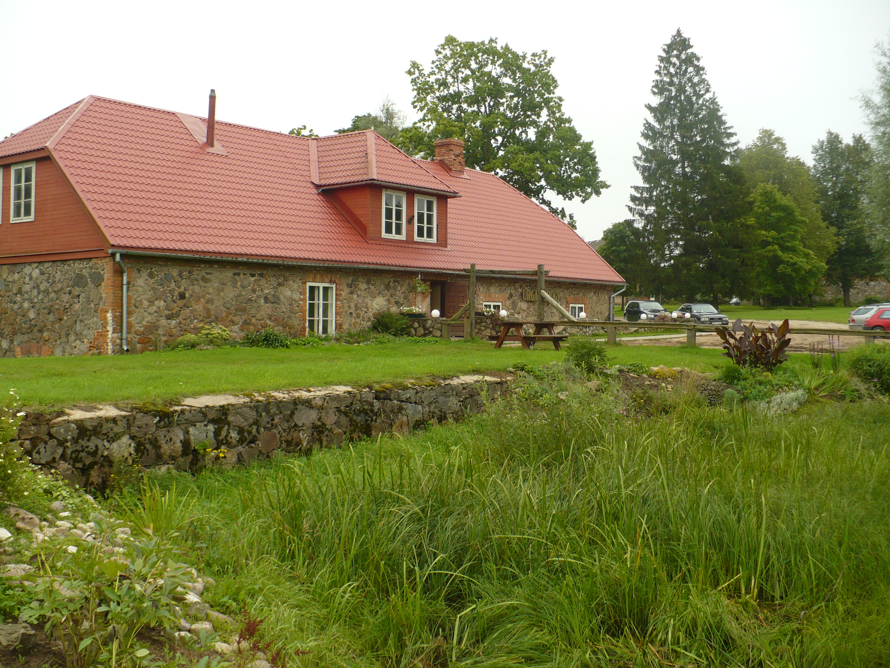 Urga inn